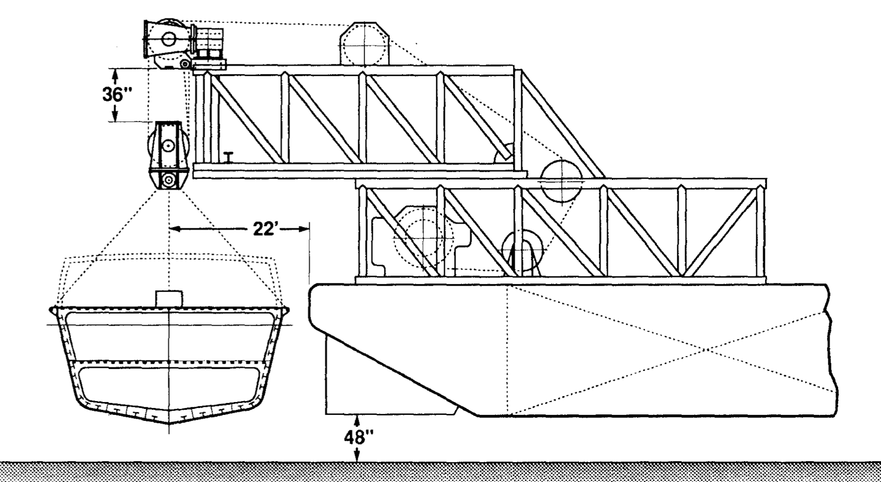 Drawing of heavy-lift barge raising the wreck of USCGC Mesquite